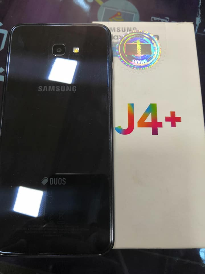 The Samsung Galaxy J4+ (Samsung Galaxy J4 Plus) is an Android smartphone manufactured by Samsung Electronics. It was unveiled on September 19, 2018 and was released the month after.